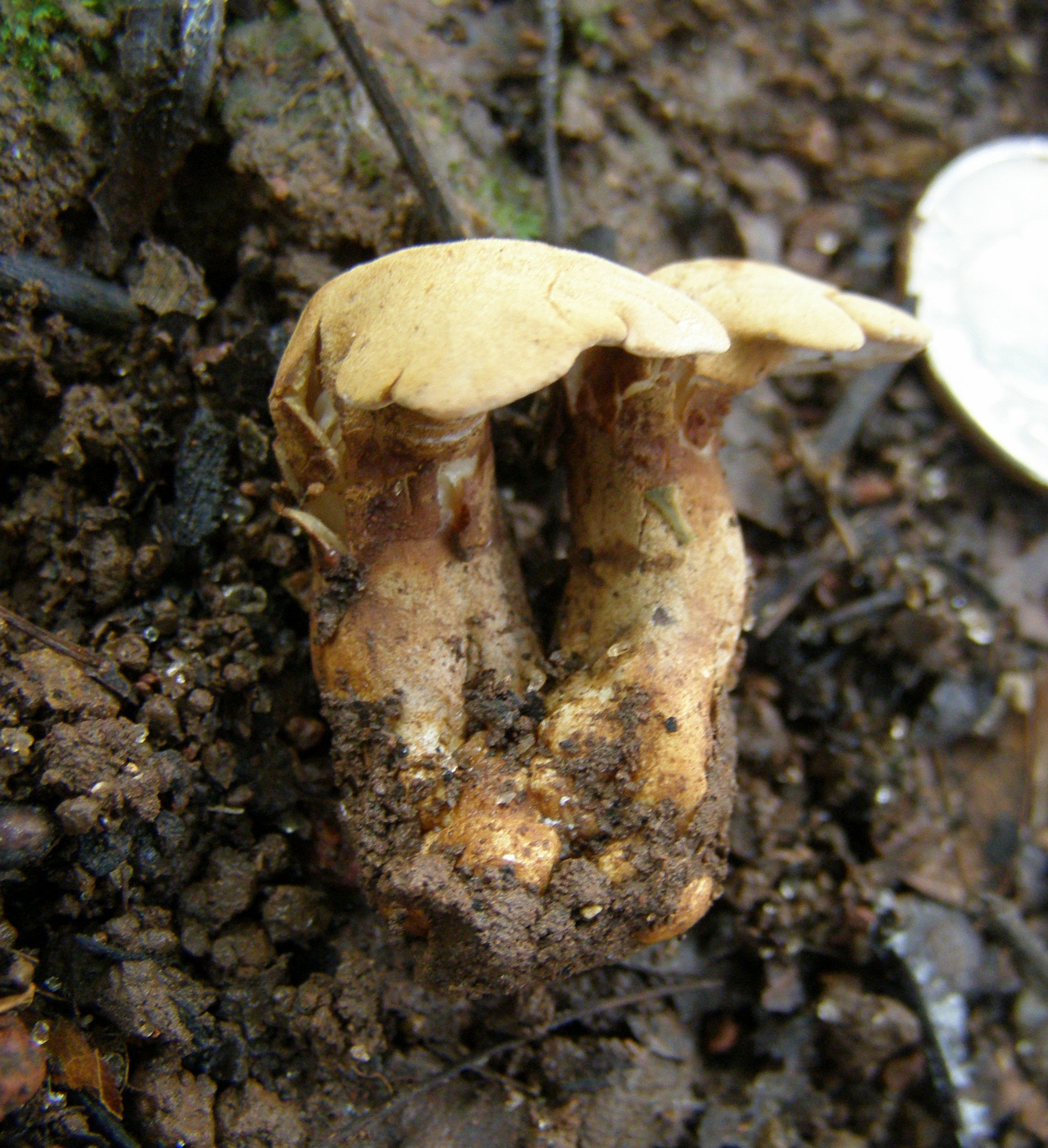 Fruit bodies of the fungus Pseudofistulina radicata (Schwein.) Burds. Photographed in Santa Rita, La Chorrera District, Panama Province, Panama.